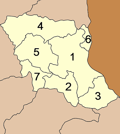 Map of Mukdahan Province, Thailand, with the districts (Amphoe) numbered. Mueang Mukdahan (อำเภอเมืองมุกดาหาร) Nikhom Kham Soi (อำเภอนิคมคำสร้อย) Don Tan (อำเภอดอนตาล) Dong Luang (อำเภอดงหลวง) Khamcha-i (อำเภอคำชะอี) Wan Yai (อำเภอหว้านใหญ่) Nong Sung (อำเภอหนองสูง)